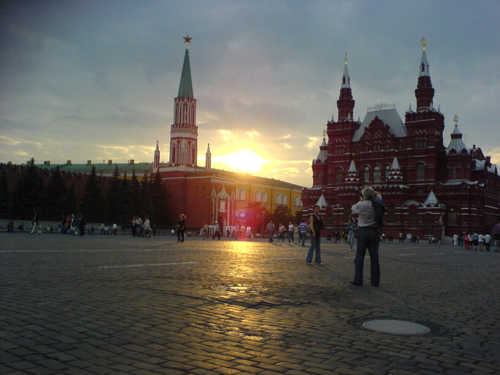 Moscow, Krasnaya Square, Nikol'skaya Tower of the Kremlin and the State Historical Museum, Sunset